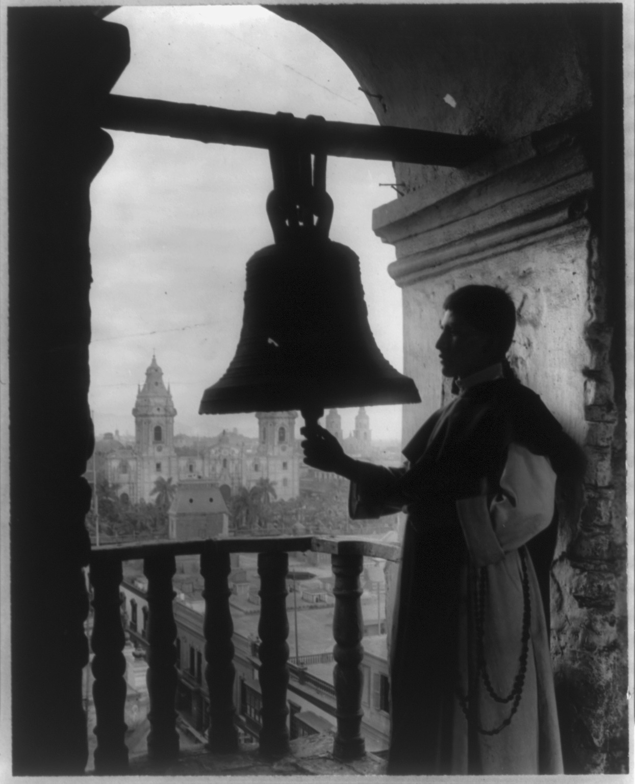 Title: Tower of Dominican Church, Lima, Peru Abstract: Monk holding clapper of bell. Physical description: 1 photographic print. Notes: LOT subdivision subject: Peru.; Title and other information transcribed from caption card and item.; Photograph copyright by Publishers Photo Service, N.Y.C.; Frank and Frances Carpenter Collection (Library of Congress).